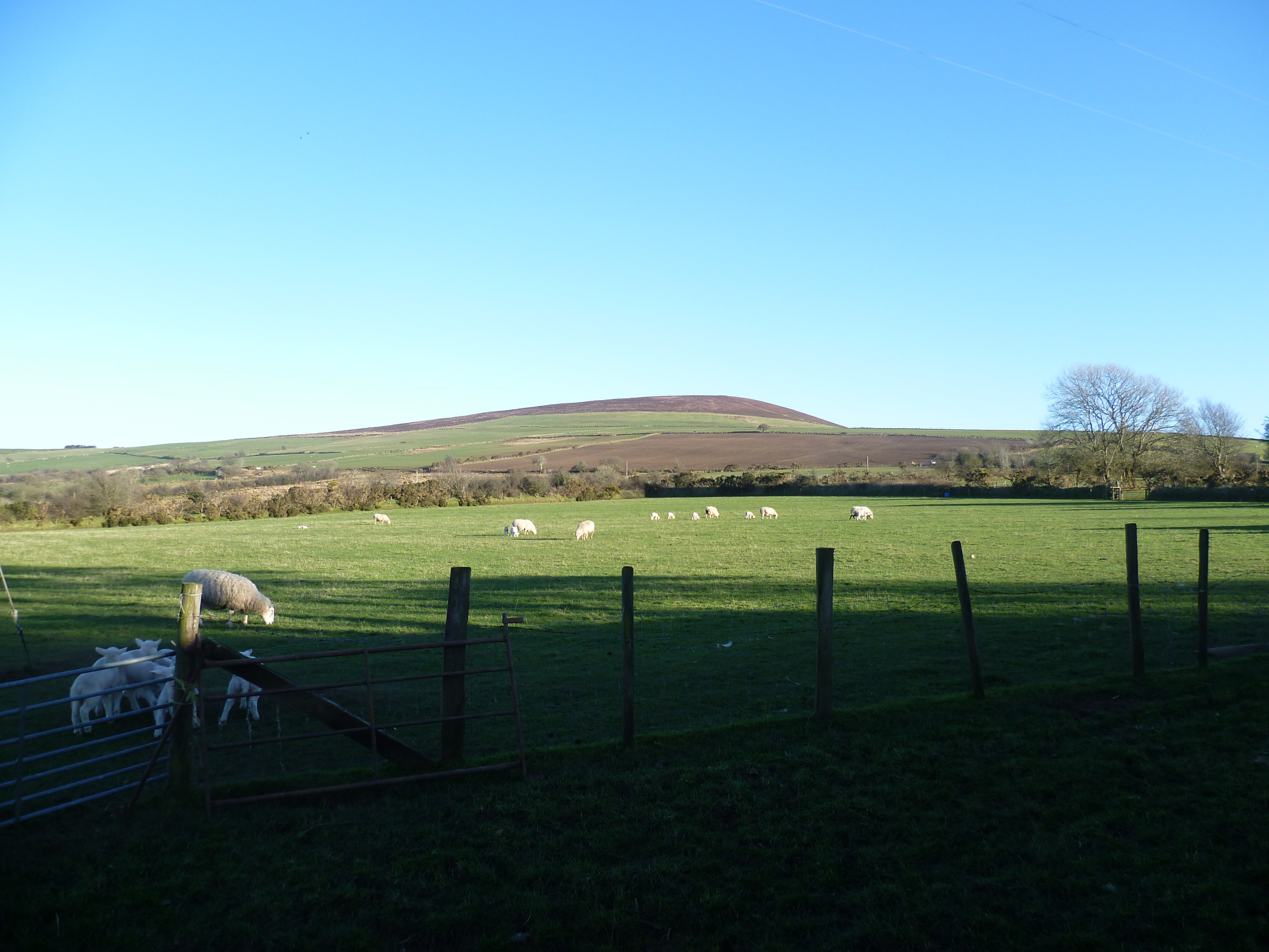 View from Clover Hill, Blaenffos, south-east towards Frenni Fawr